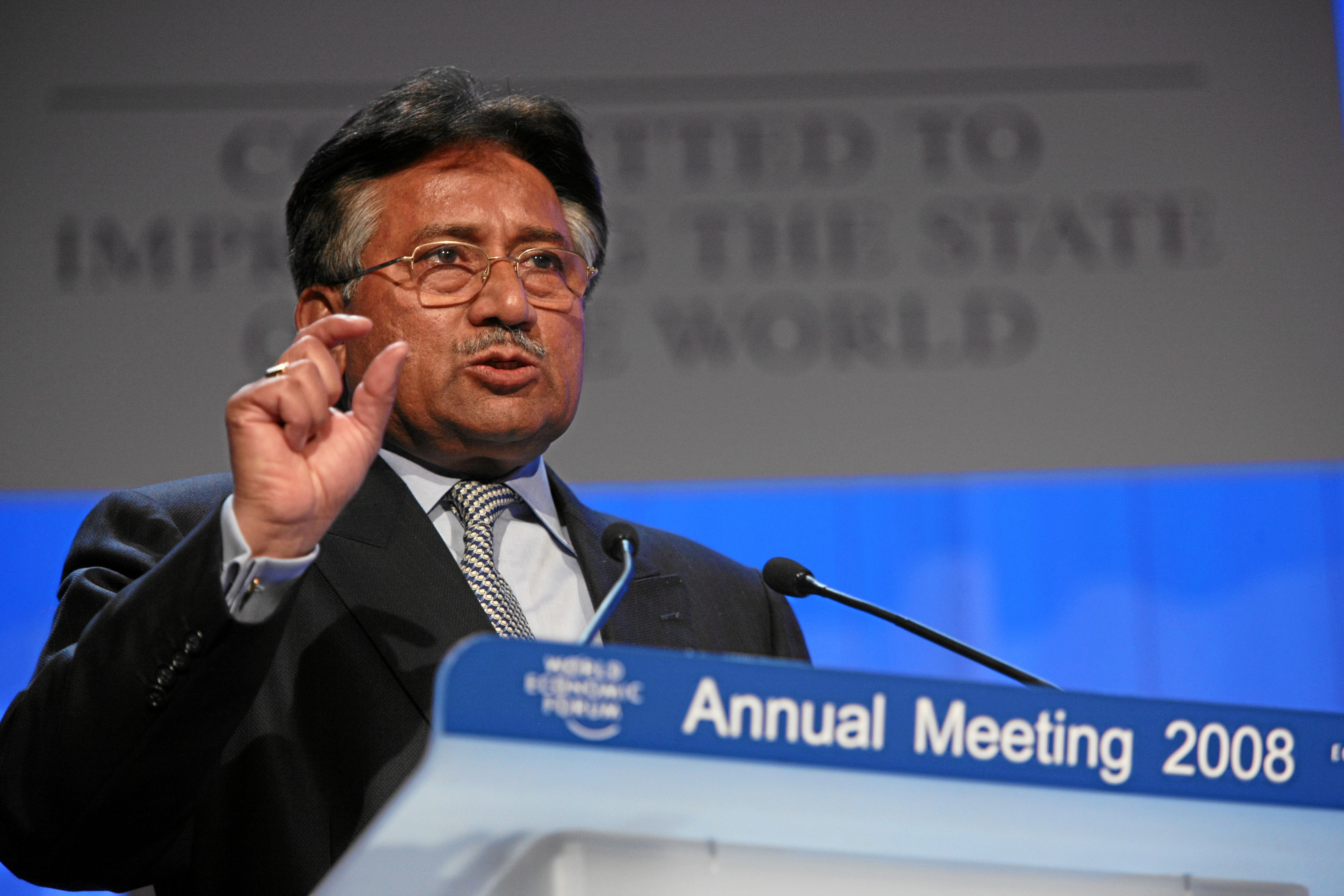 DAVOS/SWITZERLAND, 24JAN08 - Pervez Musharraf, President of Pakistan, captured during the session 'Three Crucial Questions for the President of Pakistan, Pervez Musharraf' at the Annual Meeting 2008 of the World Economic Forum in Davos, Switzerland, January 24, 2008.